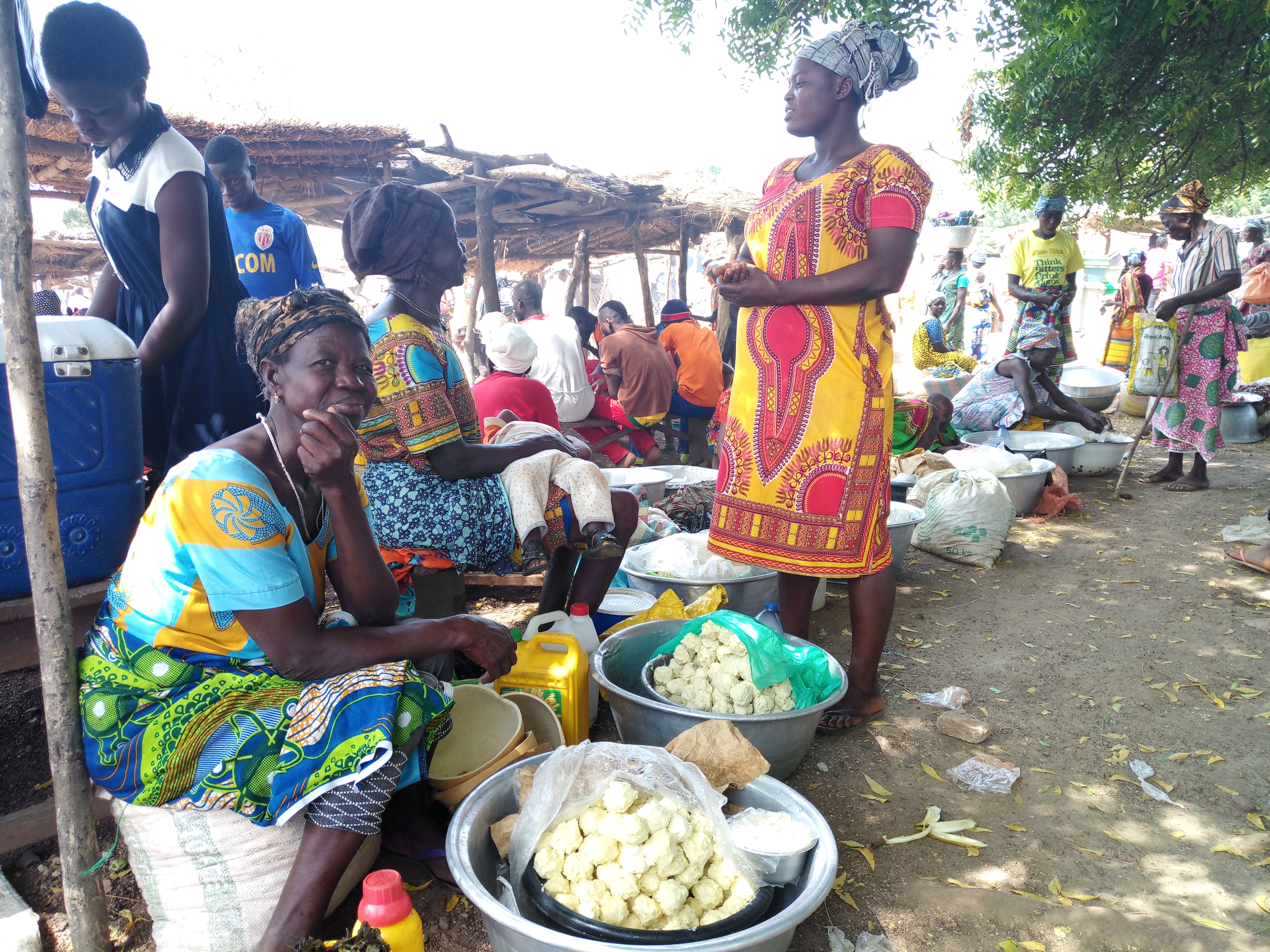 This is an image of "African people at work" from Ghana